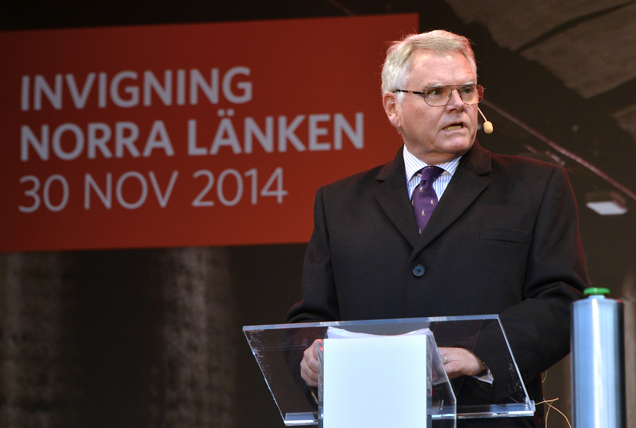 Gunnar Malm during the inauguration of the Northern Link in Stockholm November 30, 2014.